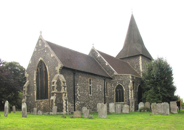 St Peter & St Paul, Swanscombe, Kent